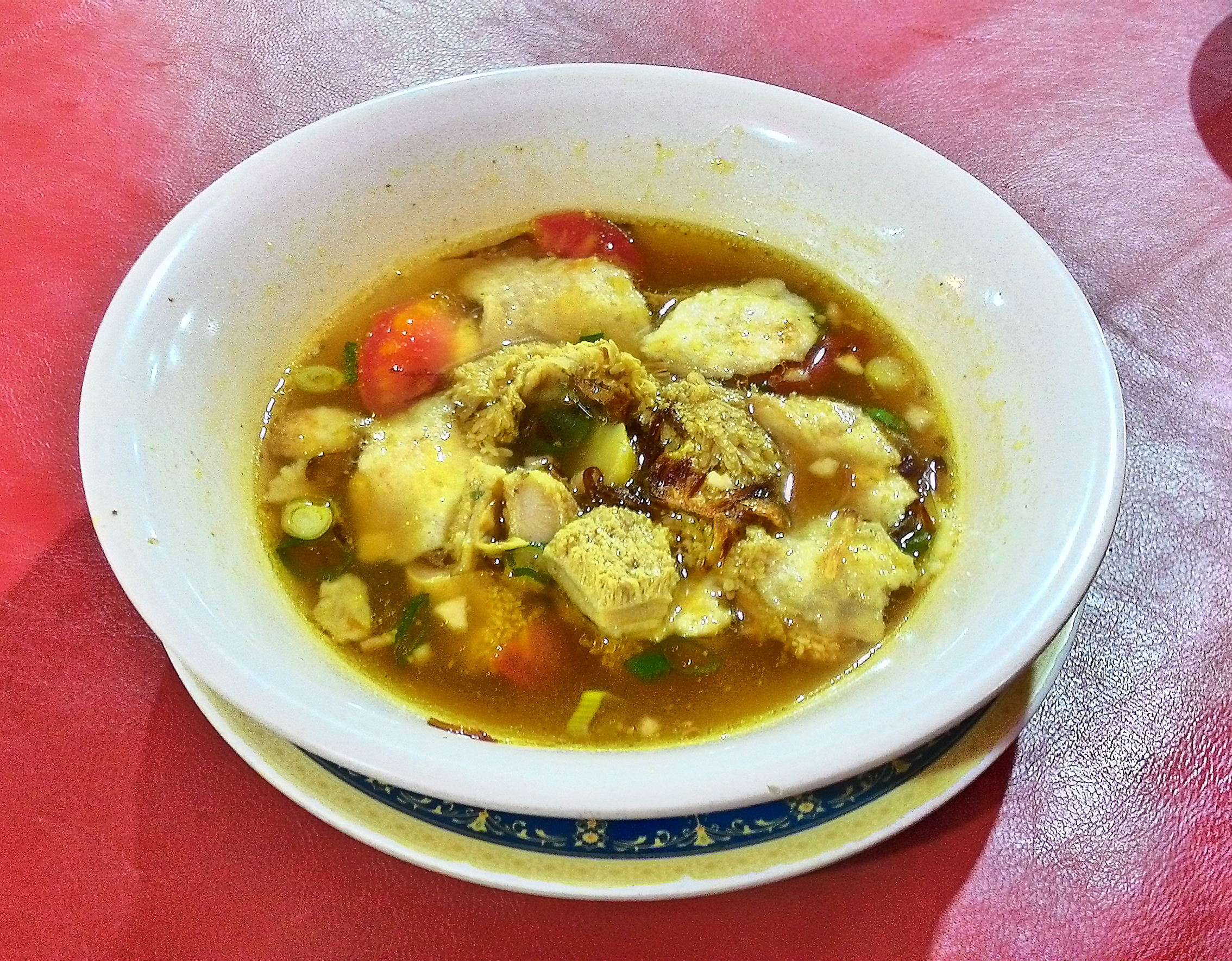 Soto Babat, Indonesian cattle rumen tripe in spicy soto soup. Served in Jakarta, Indonesia.